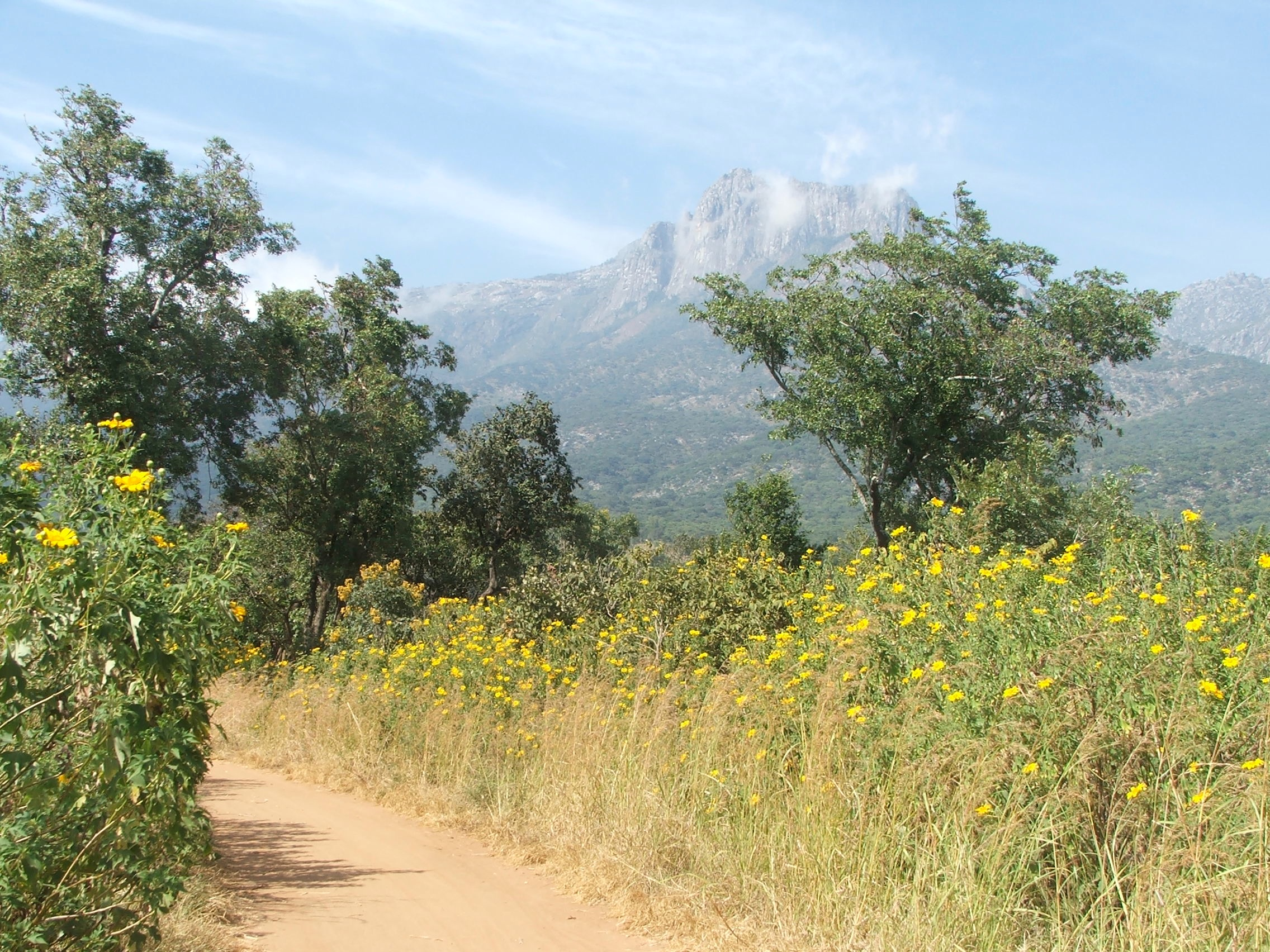 Mount Mulanje in Malawi, seen from a mountain path